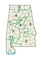 Image adapted from US fed gov't source Category:Congressional districts of Alabama